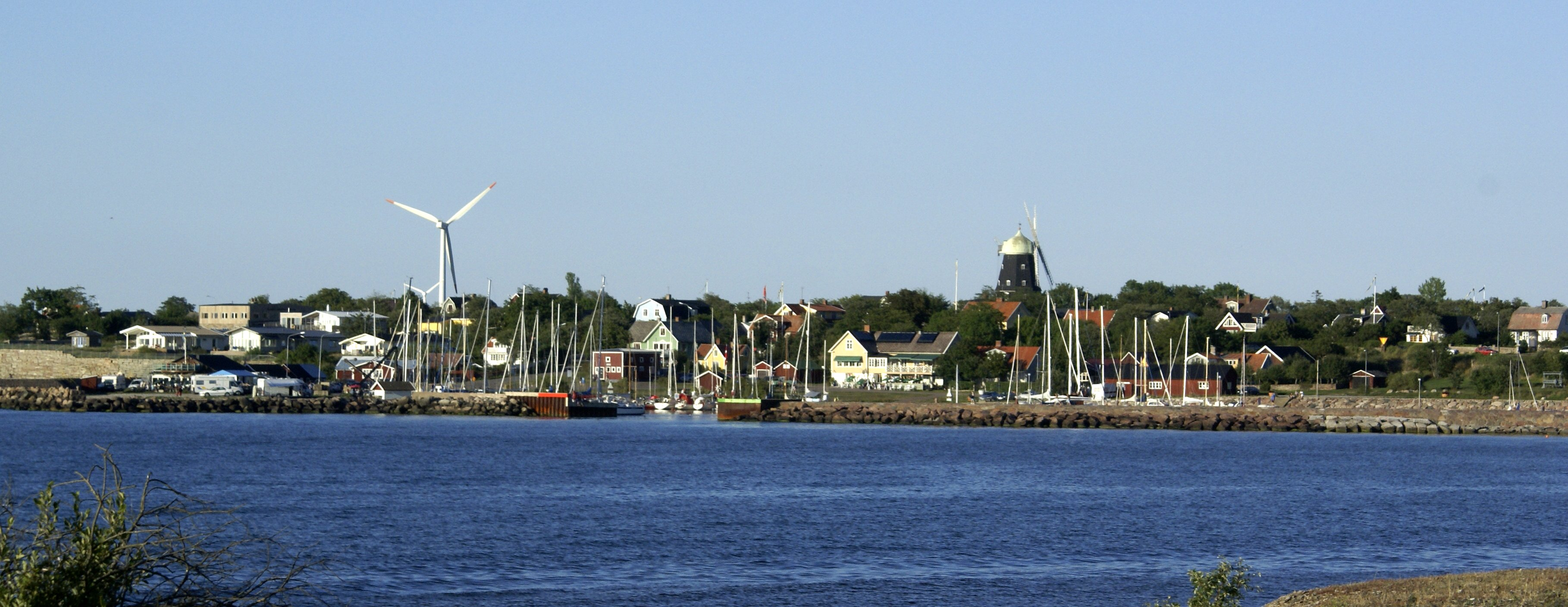 Sandvik, Borgholm